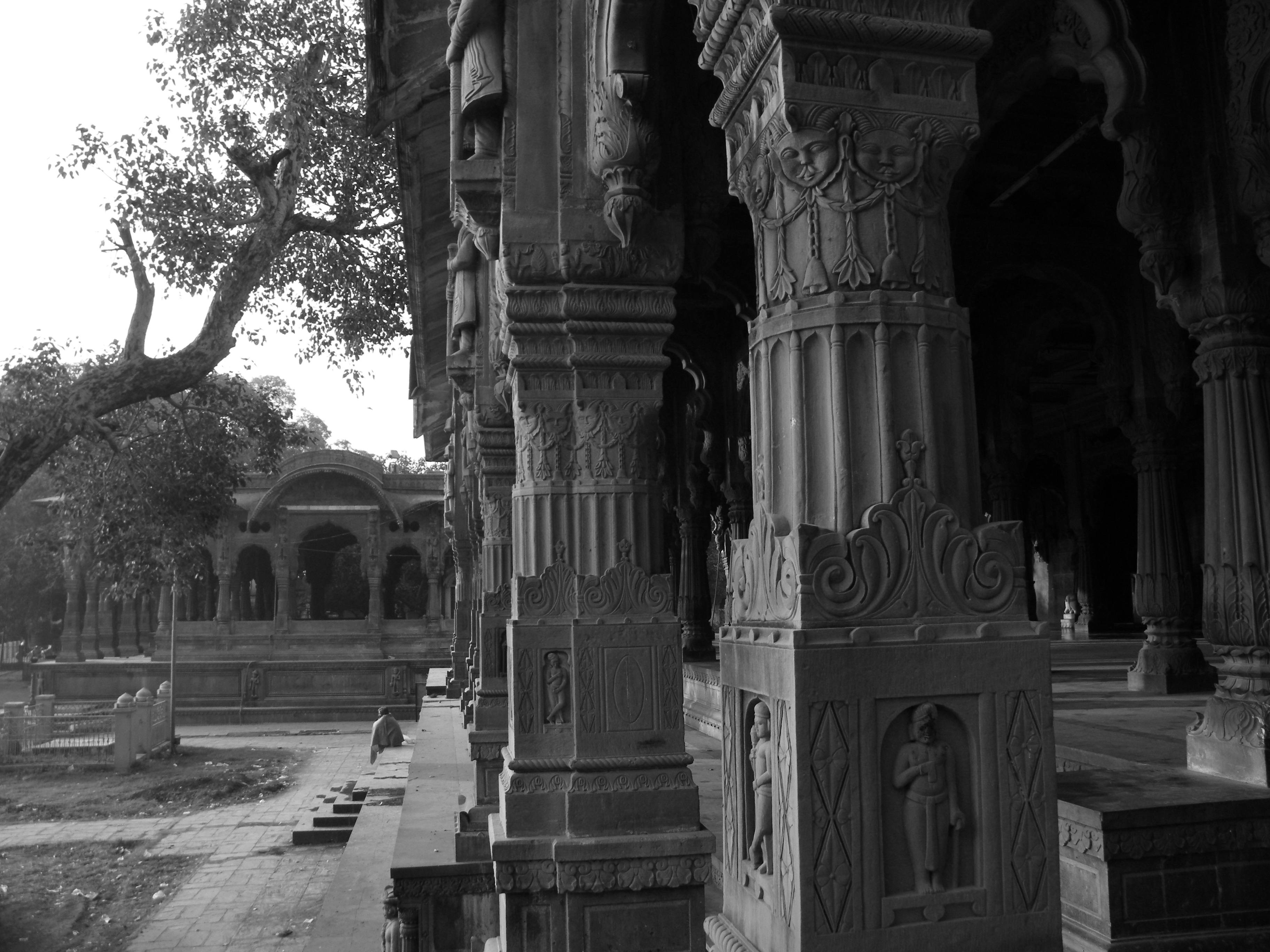 The inside view of Krishnapura Chhatri, Indore